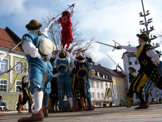 The Traunstein sword dance illustrates the expulsion of winter through spring in which the red leader of the dance symbolises spring and the two buffoons act as the ghosts of winter. At the end of the dance the throats of the buffoons are symbolically cut through and spring is raised into the air on a platform of swords to celebrate its victory. Now nothing can stop the arrival of spring in the Chiemgau. The origins of the Traunstein sword dance go back to the year 1530.